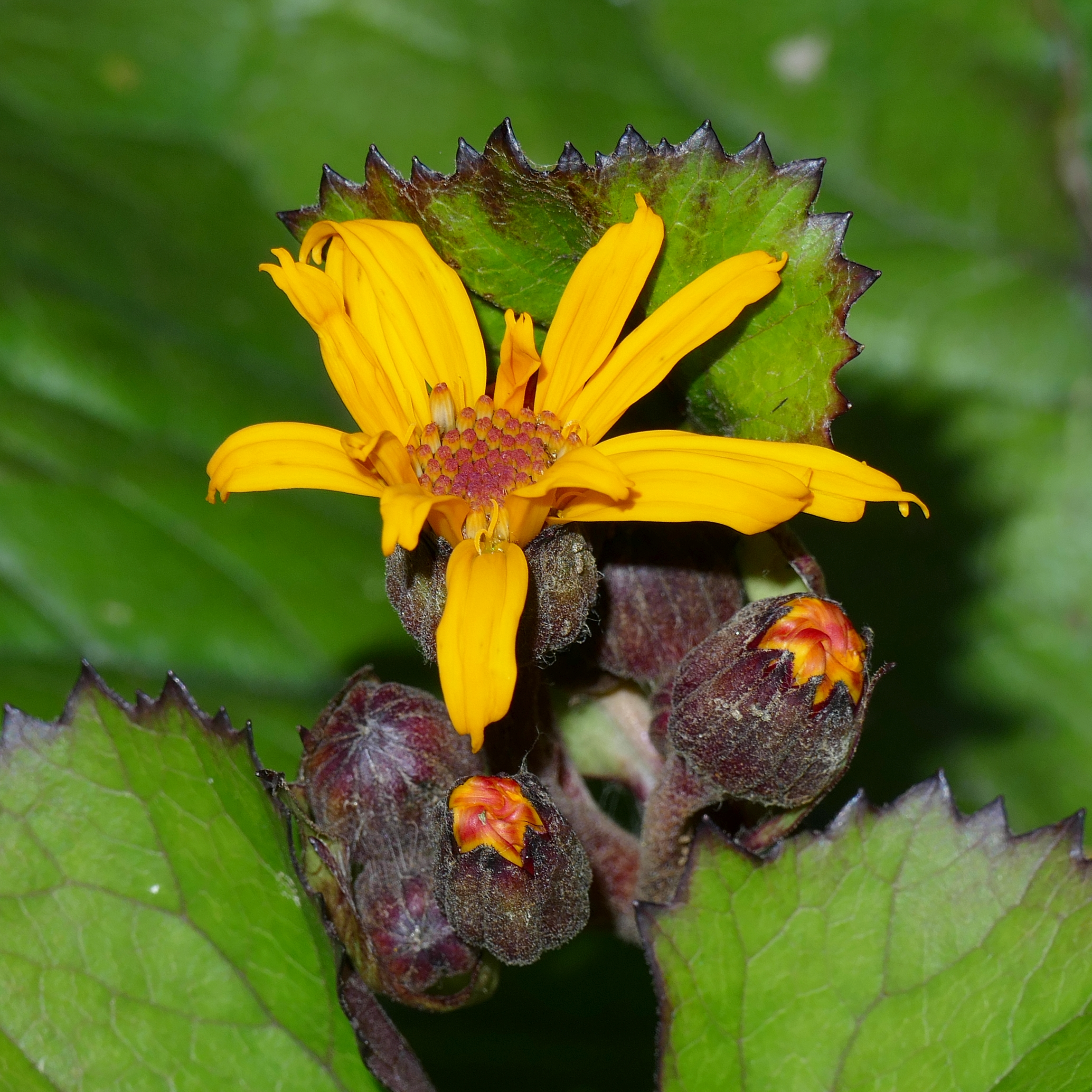 Young inflorescences of Summer ragwort.